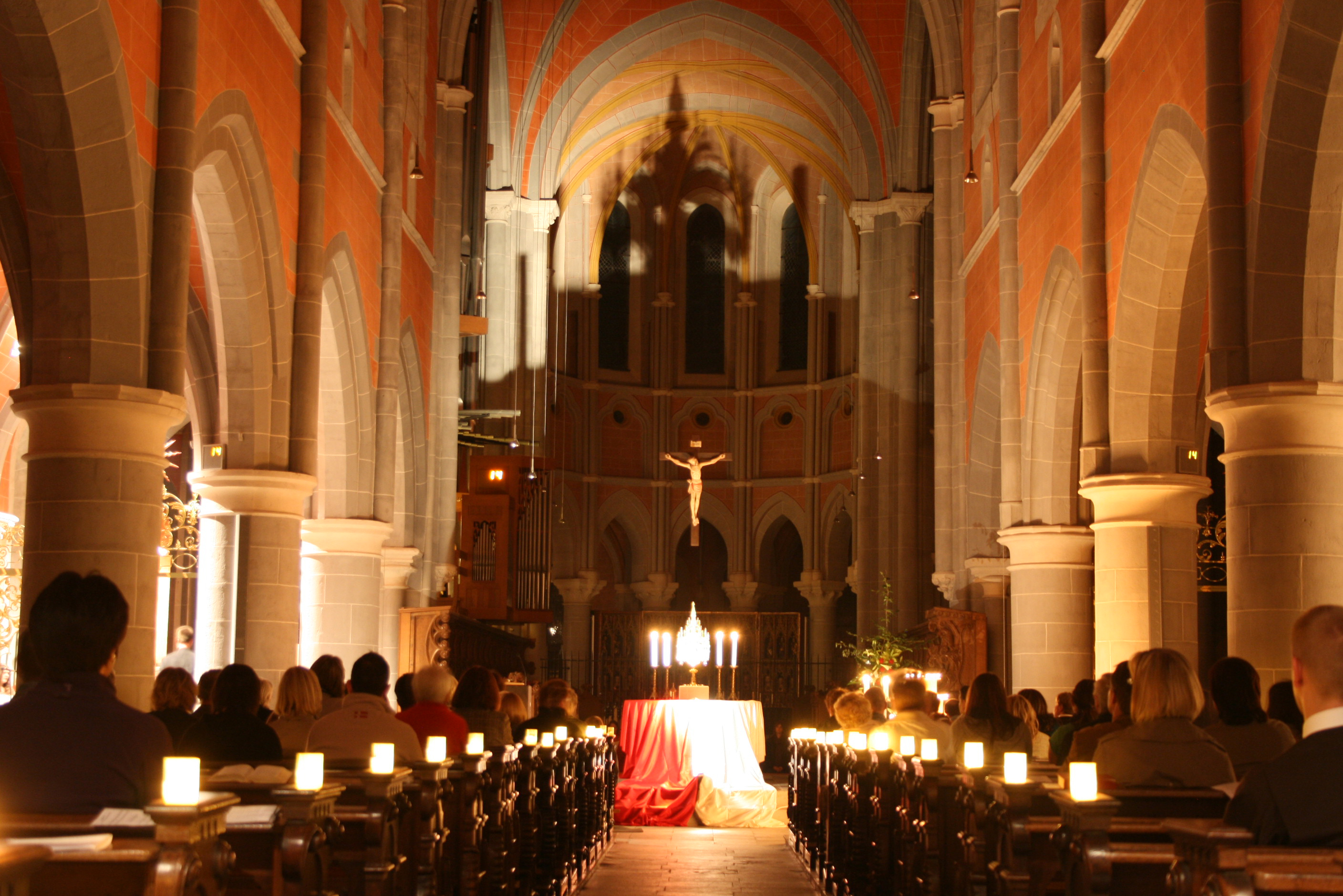 Nightfever in der Basilika von Marienstatt